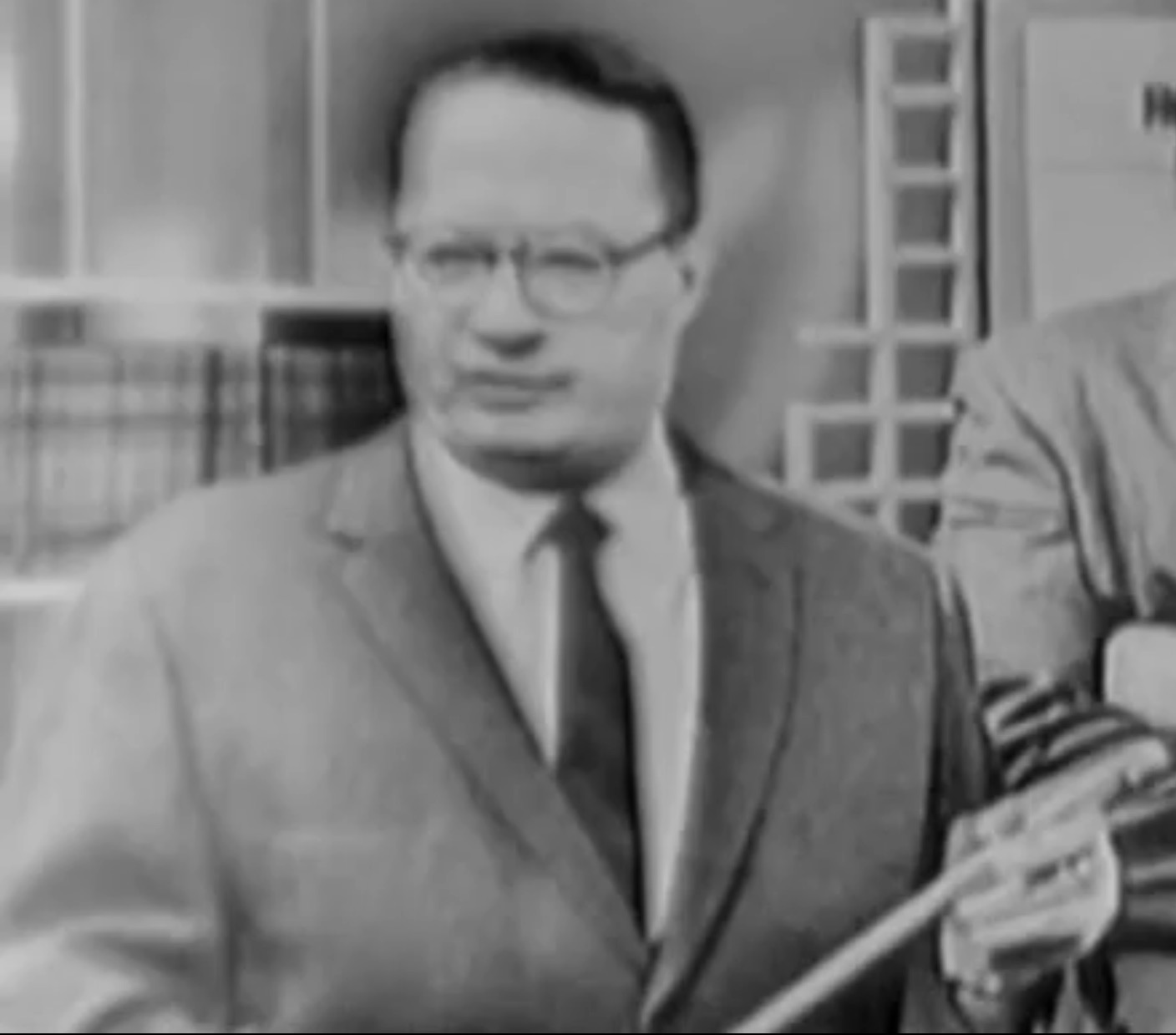 An image of Dr. Philip Hauser in 1960.